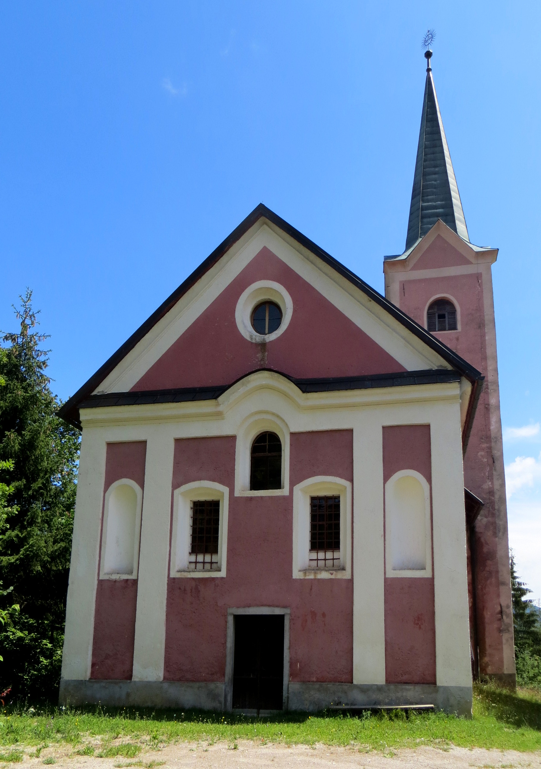 Saint Francis Xavier in Sajevec. Municipality of Ribnica, Slovenia